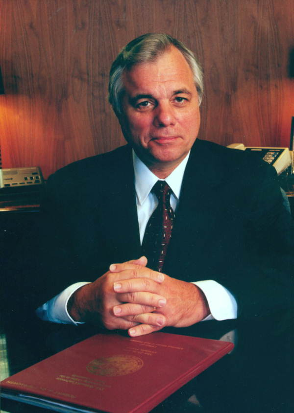 Portrait of Robert Butterworth, Florida Attorney General